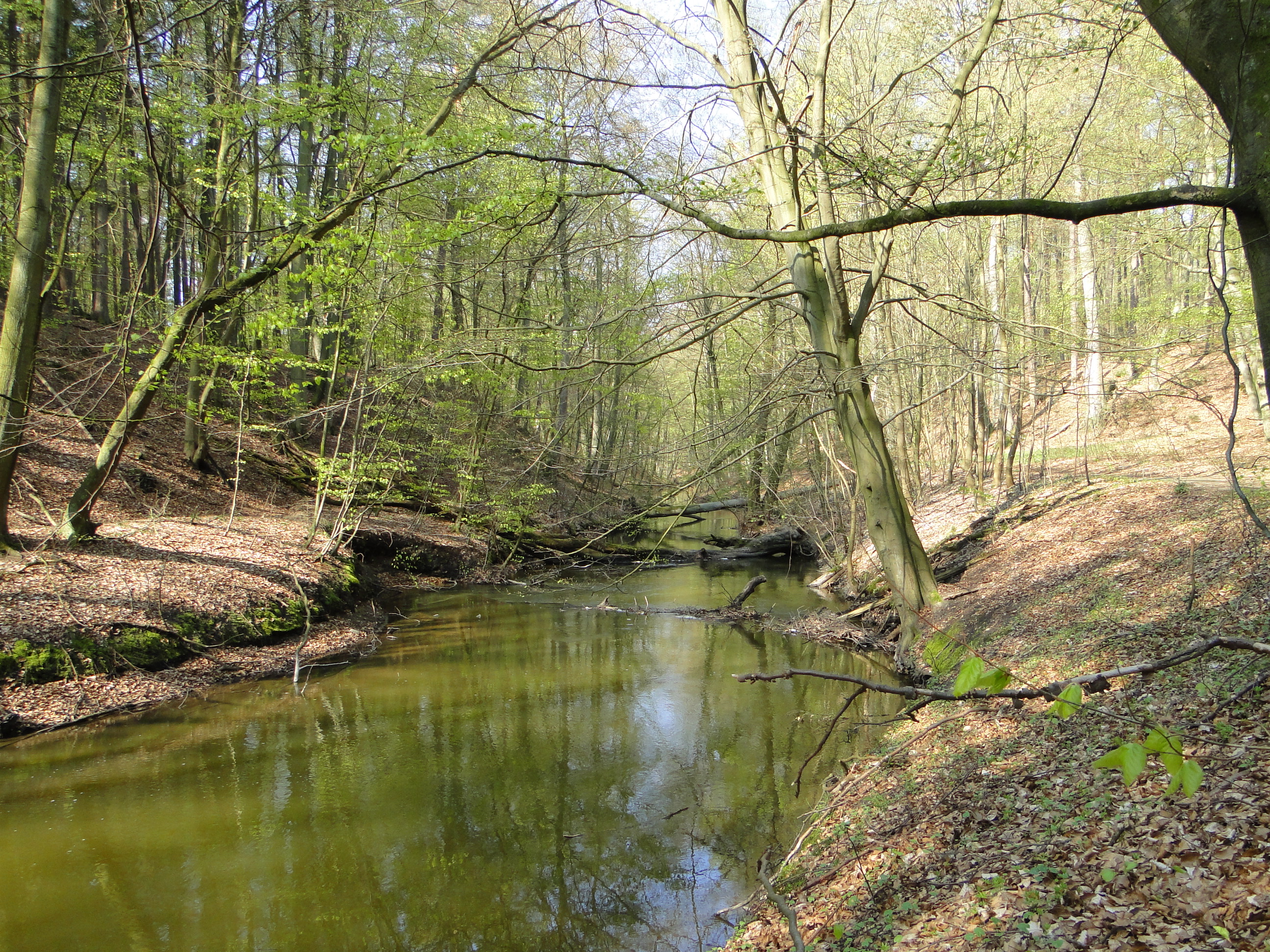 Mildenitz at old watermill in Kläden, district Parchim, Mecklenburg-Vorpommern, Germany